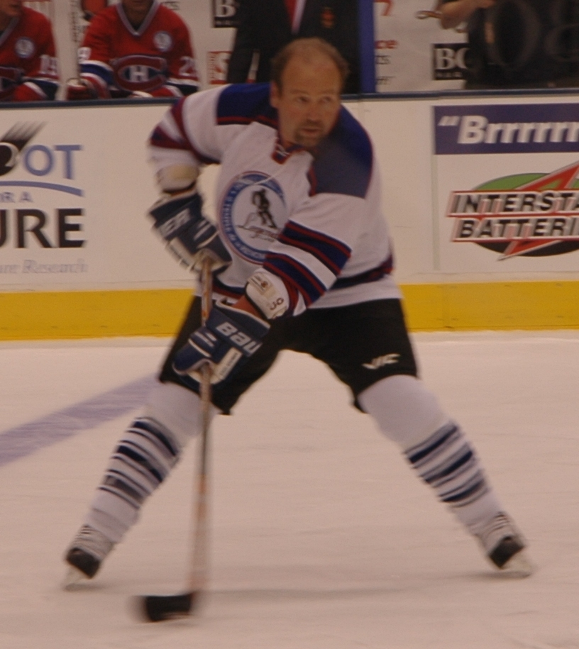 Wendel Clark played with the All-Star Legends 2008 in Toronto